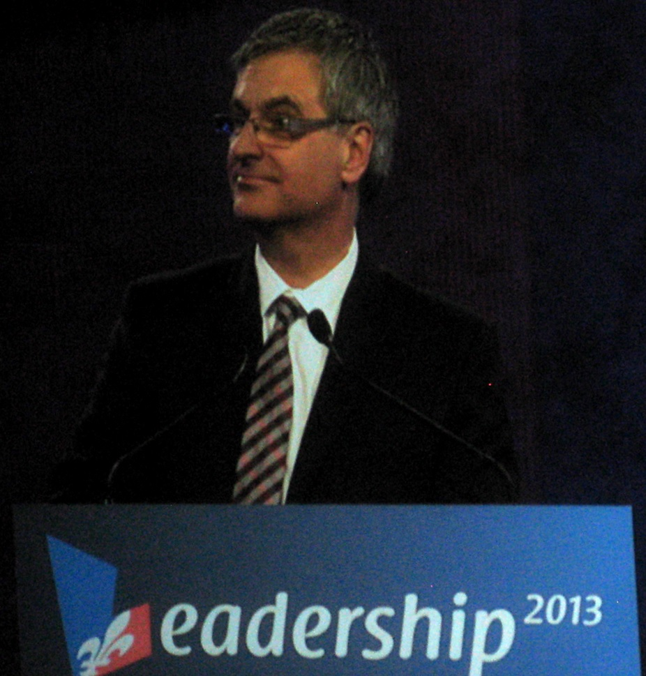 Saint-Laurent MNA and interim leader Jean-Marc Fournier at the Quebec Liberal Party leadership convention